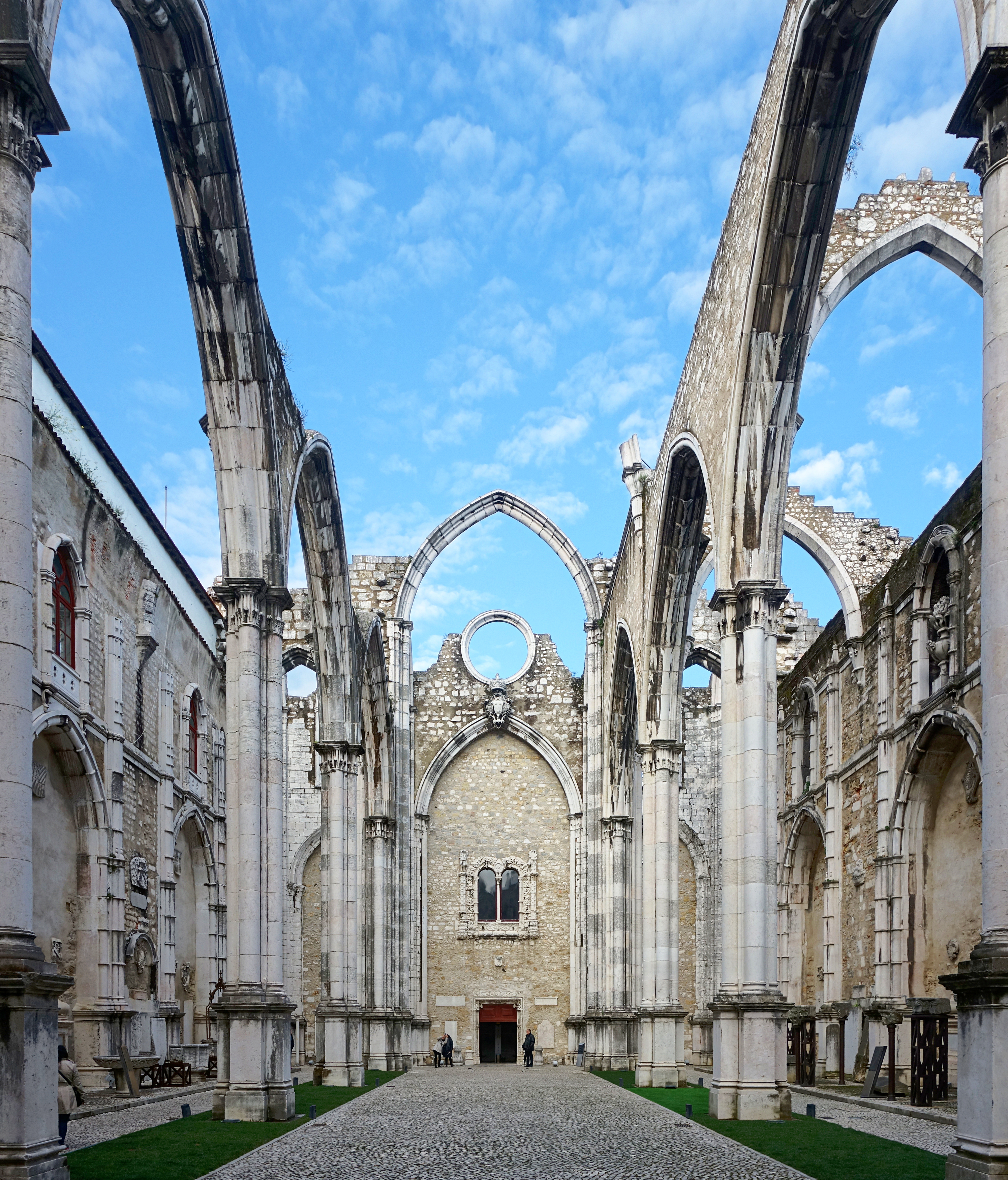 Nave of Igreja do Convento do Carmo in Lisbon, Portugal.